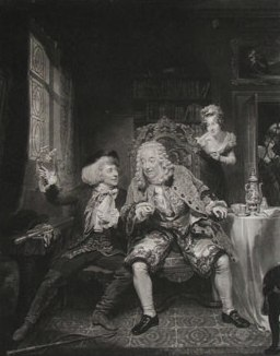 Mrs Orger, Miss Cubbitt, Mr Munden, & Mr Knight. In the Musical Entertainment of Lock and Key by George Clint - Prince Hoare (younger):Prince Hoare the younger. Munden as Old Brummagem, Edward Knight as Ralph, and Miss Marie Caroline Cubitt as Laura